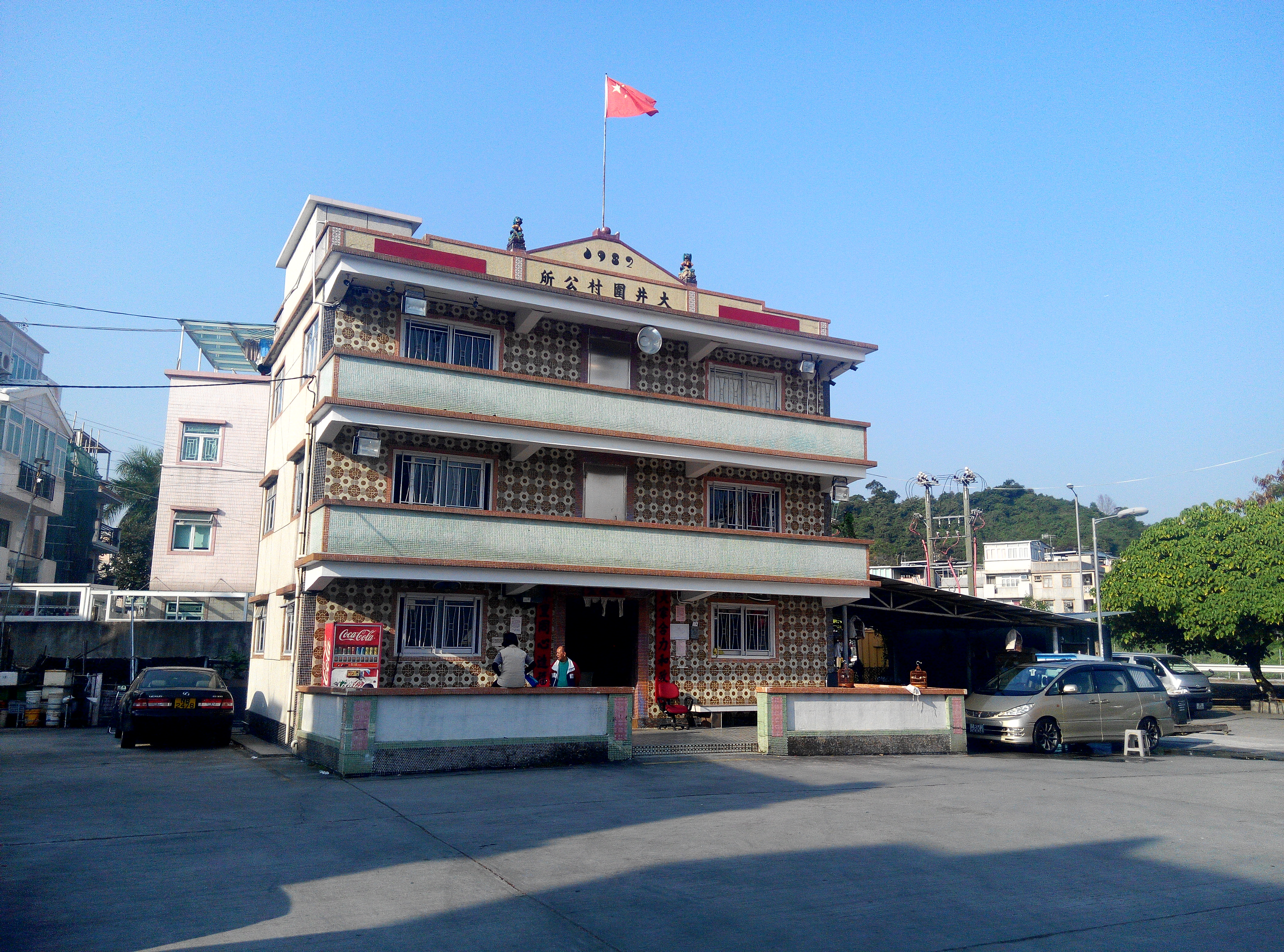 Tai Tseng Wai Rural Committee Office